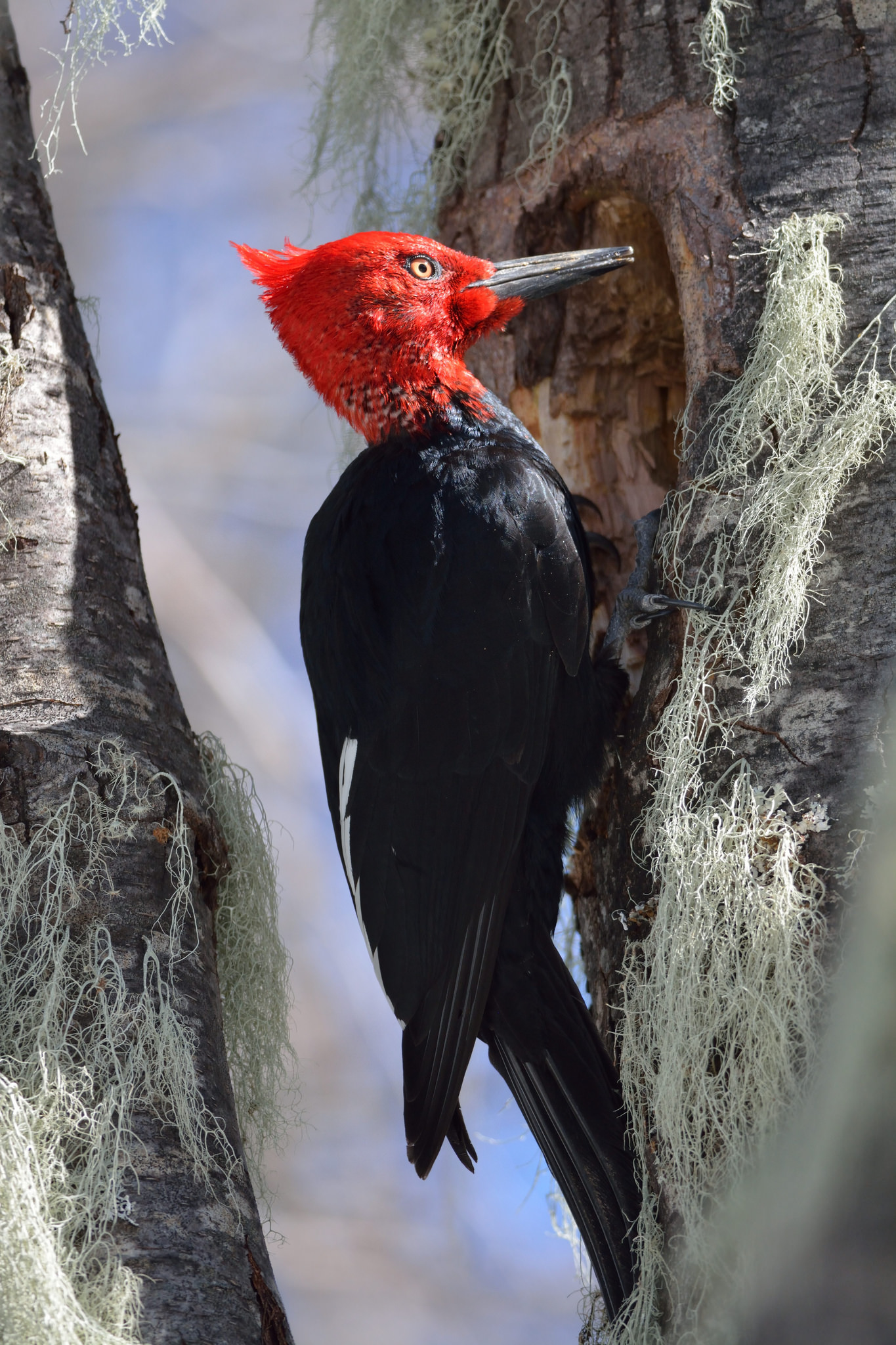 Magellanic Woodpecker, male. Nest construction.